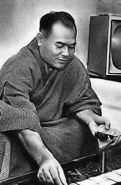 Ichiro Inamine